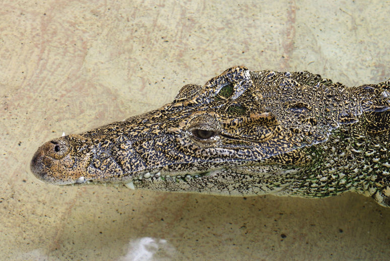 Cuban crocodile at Miami's Metrozoo